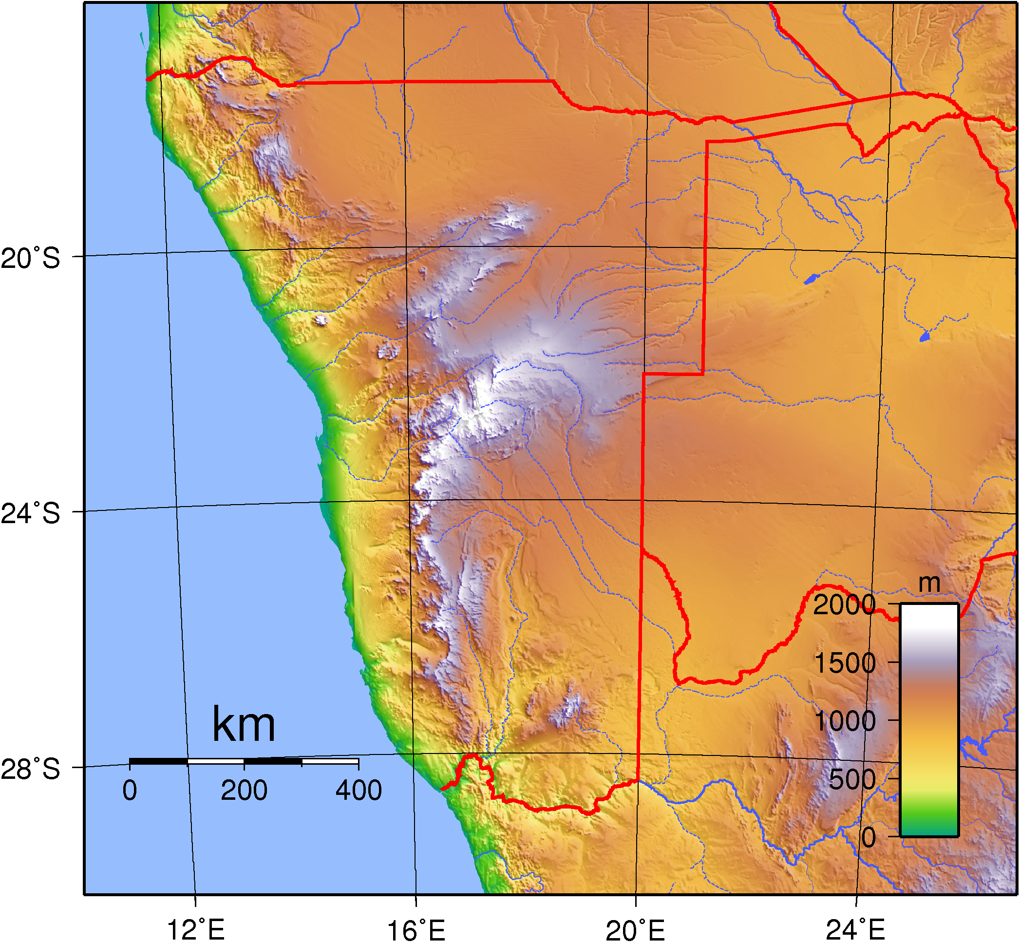 Topographic map of Namibia. Created with GMT from public domain GLOBE data